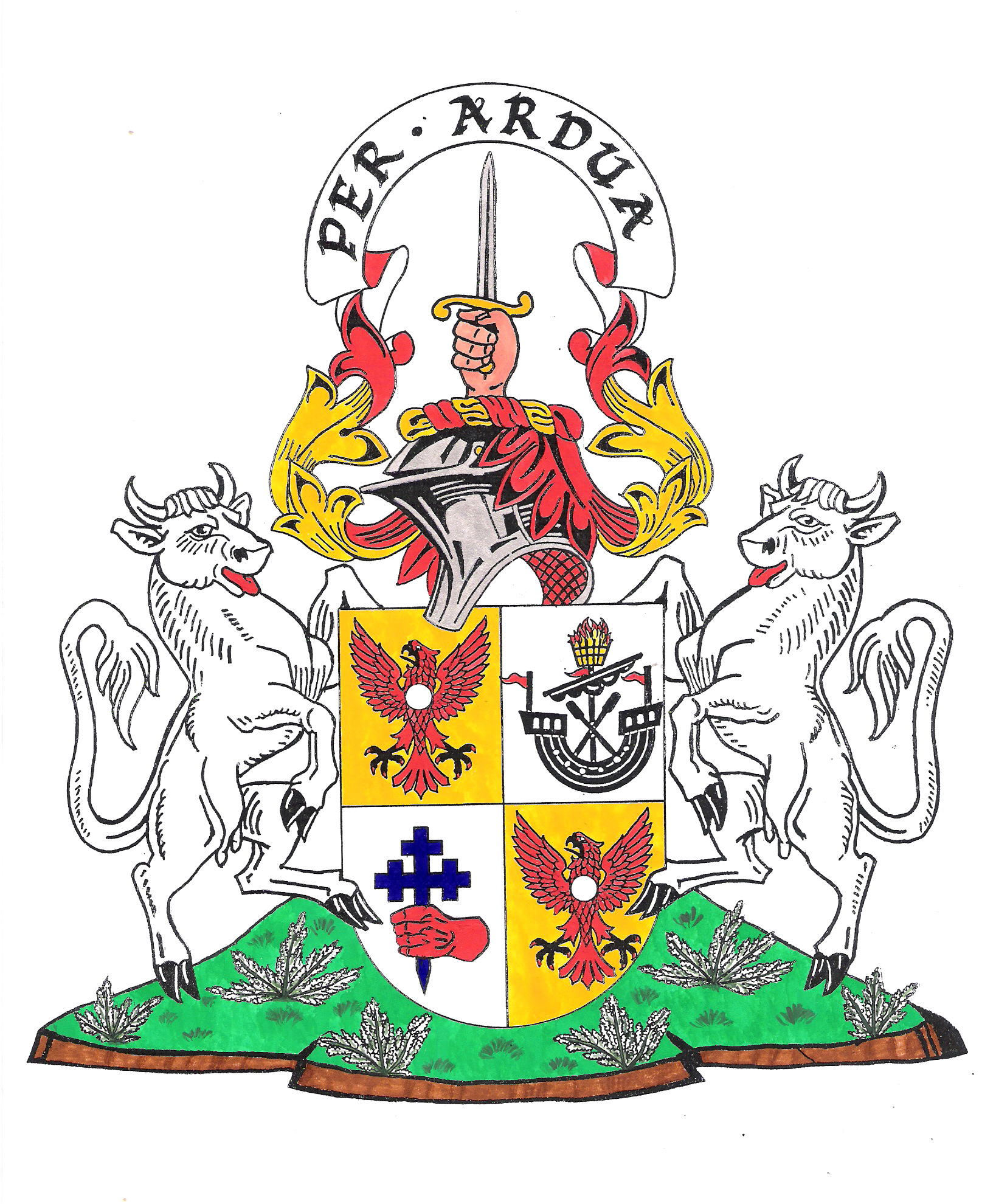 Image of Scottish coat of arms of MacIntyre of Glenoe, Chief of Clan MacIntyre Blazon: Quarterly 1st and 4th Or a spread eagle Gules charged on the breast with a plate; 2nd a lymphad with furled sails and crossed oars Sable pennonned Gules with a beacon at the masthead inflamed Proper; 3rd a sinister hand couped at the wrist Gules grasping a cross crosslet fitchy Azure.